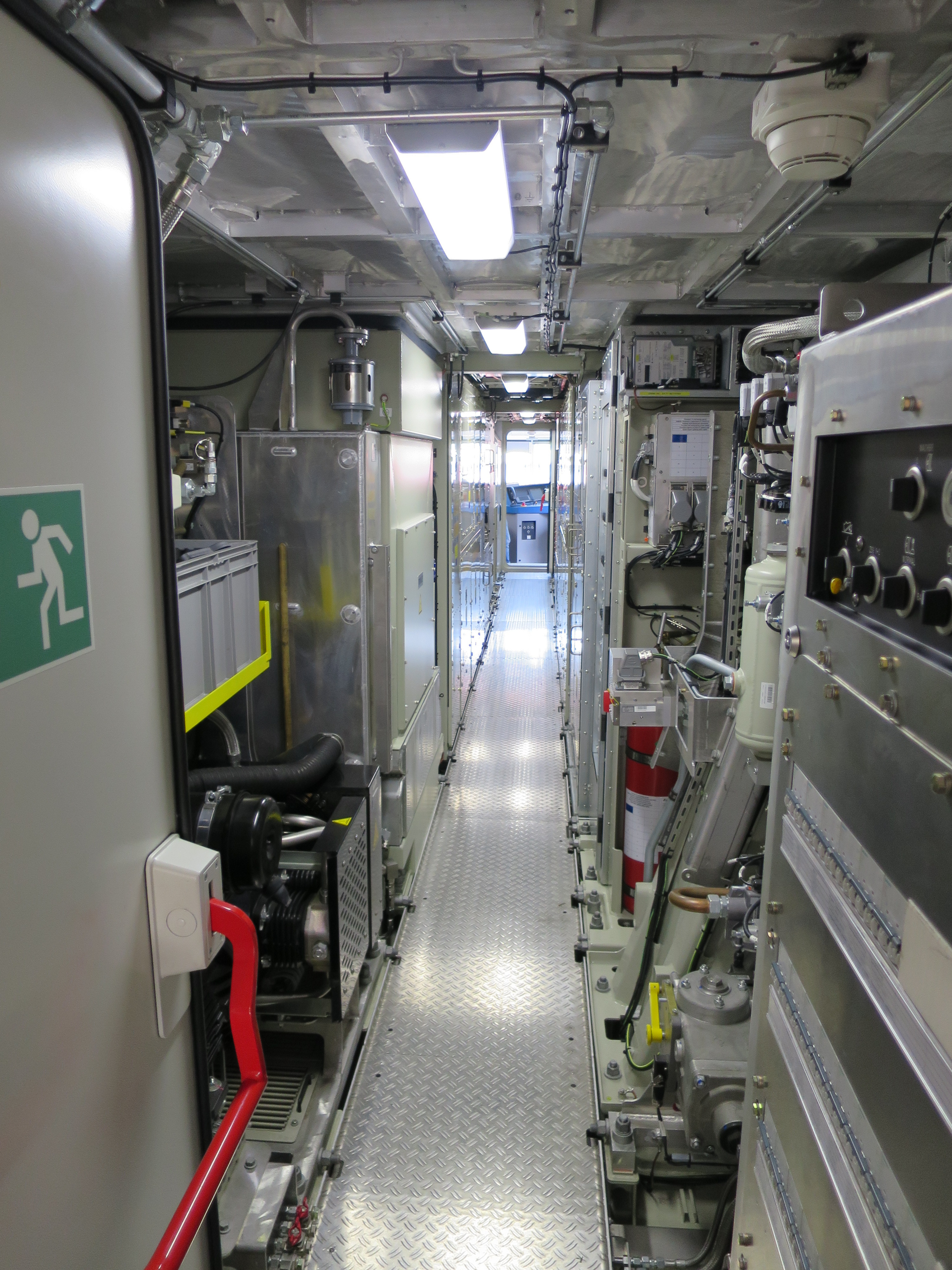 The making of this document was supported by Wikimedia Polska Association, within Wikigrant no. WG 2017-44. Siemens Vectron 193 895-0